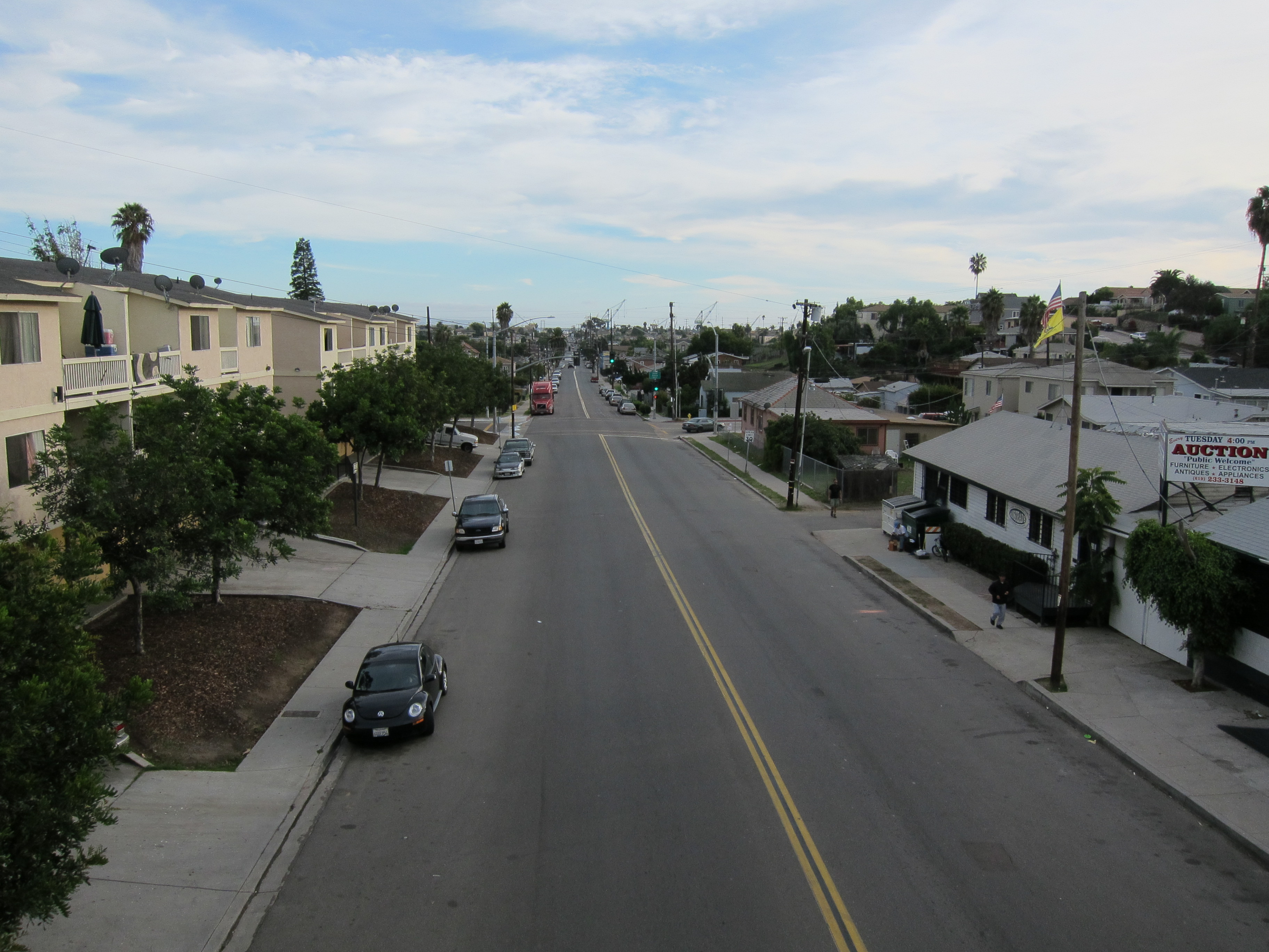 Looking south into from Market and 28th street